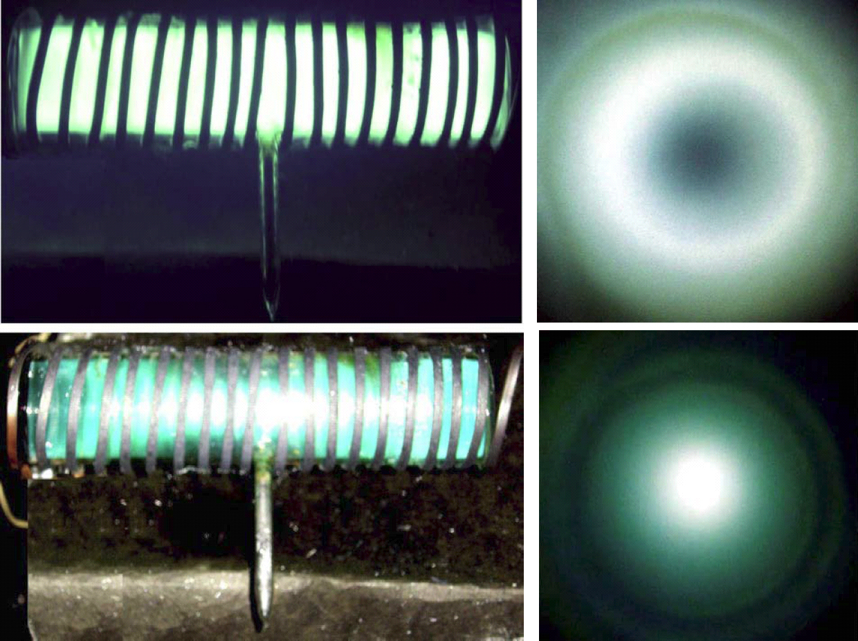 Induction Plasma Vapor Hg in Color